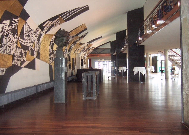 Beethovenhalle, Concert- and event hall in Bonn.